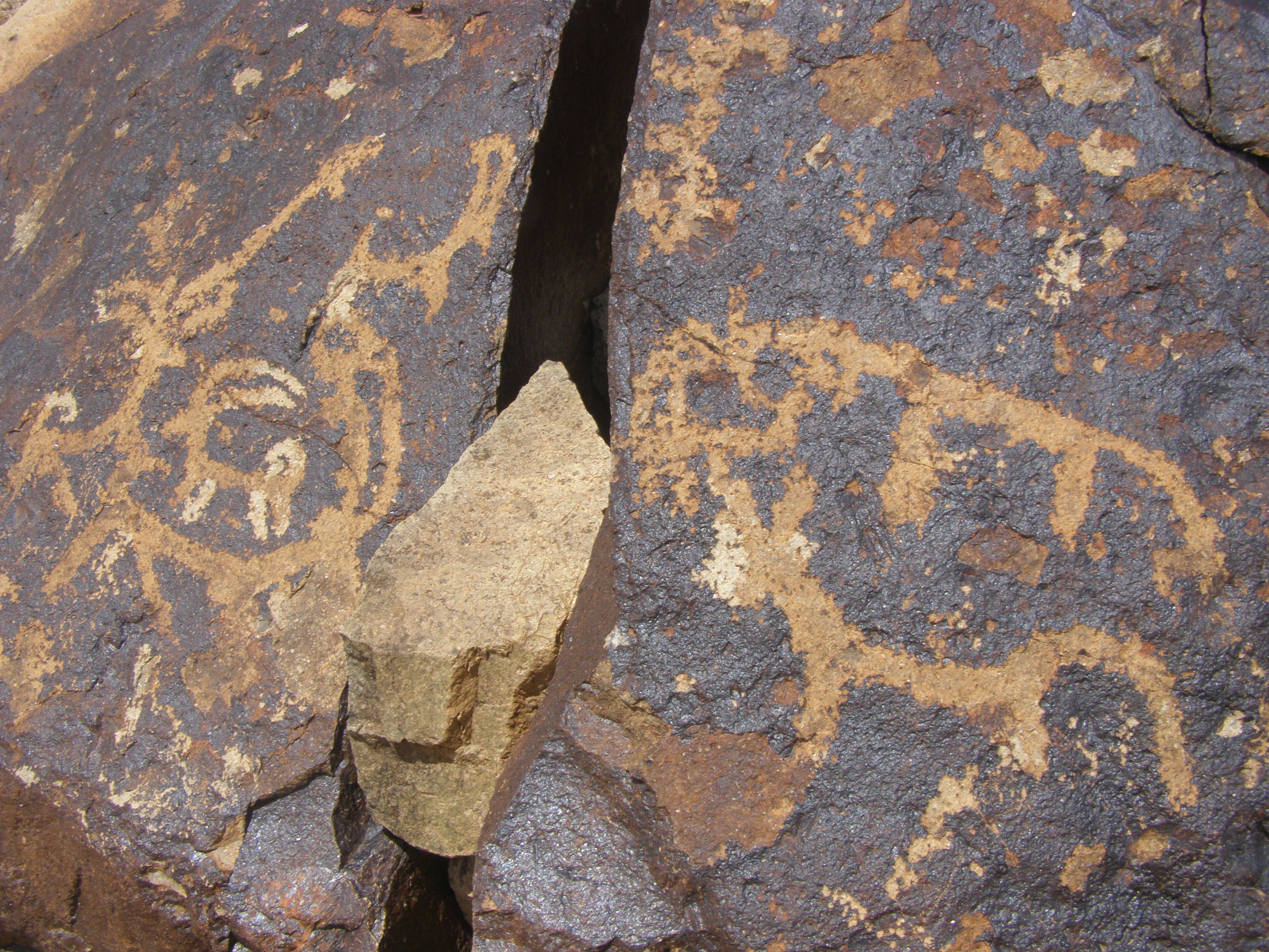 Petroglyphs seen in Ladakh, NW Indian Himalaya. Perhaps Neolithic in age.